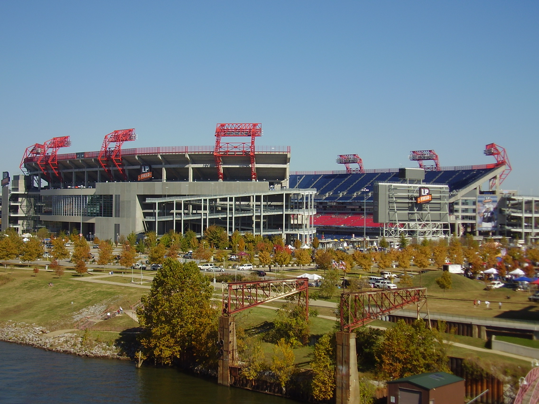 LP Field in Nashville, Tennessee as seen from the Shelby Street Bridge. October 29, 2006 13:52, 30 October 2006 . . Zpb52 . . 2272×1704 (860,511 bytes)